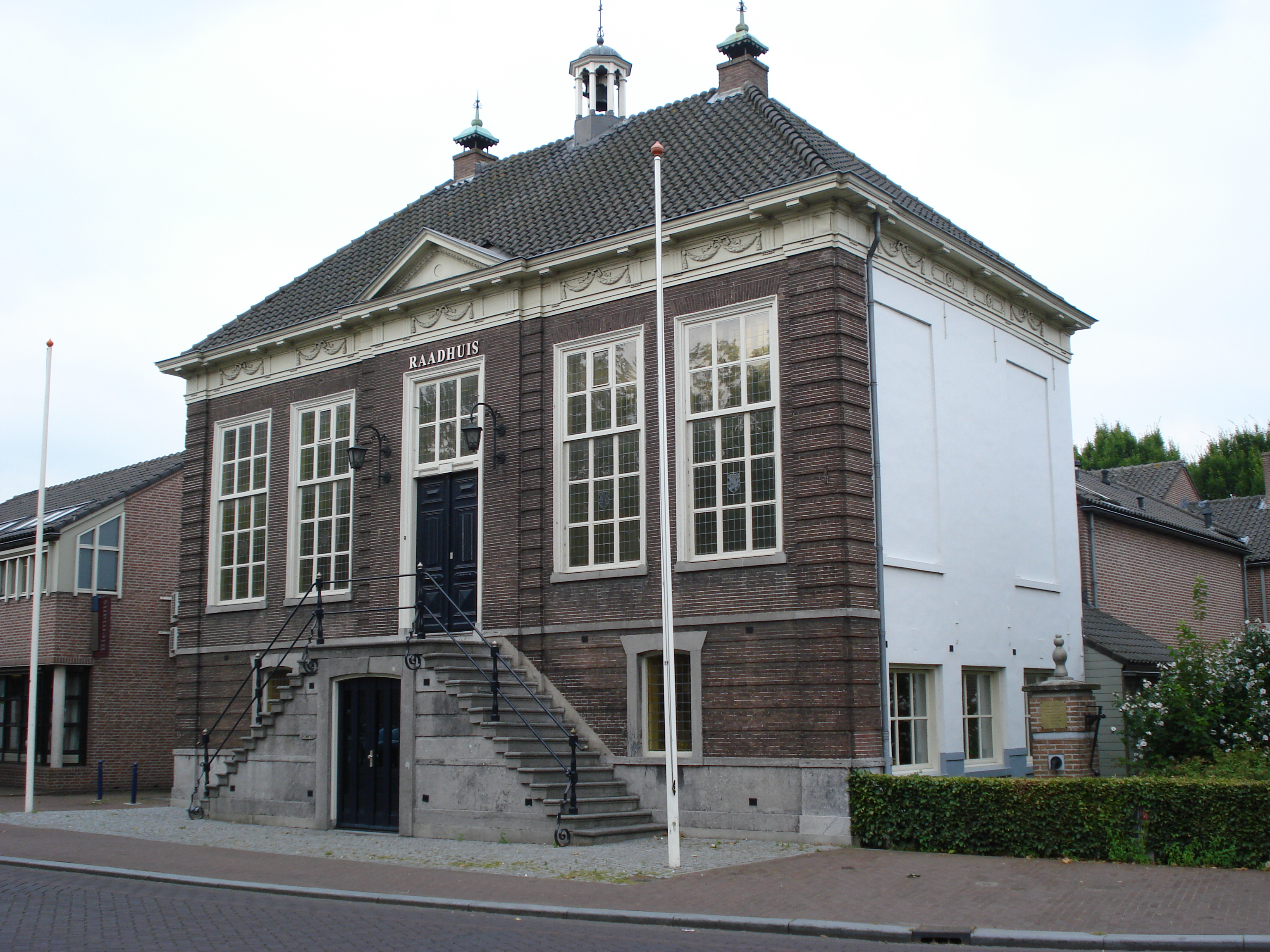 Erp (municipality of Veghel, N-Br, NL) former town hall